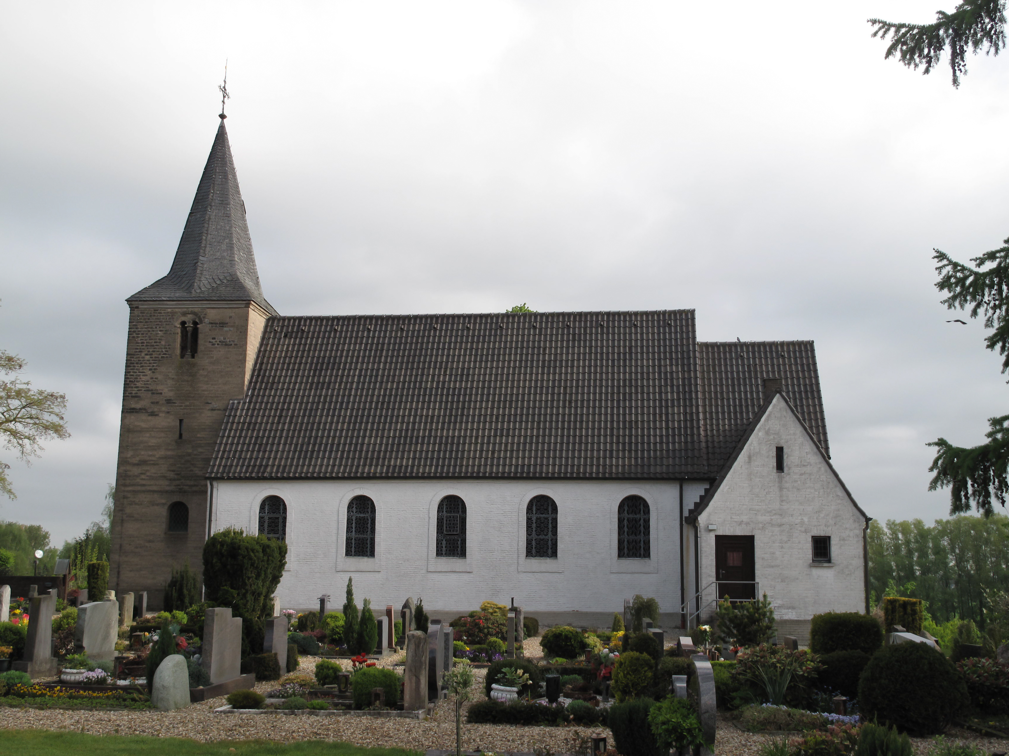 Wyler, church: Sankt Johannes Baptist Kirche